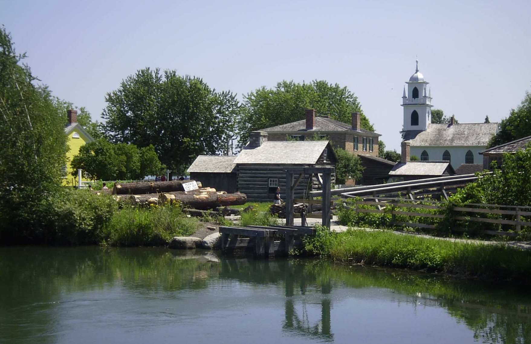 Upper Canada Village, living open-air-museum; Ontario, Canada